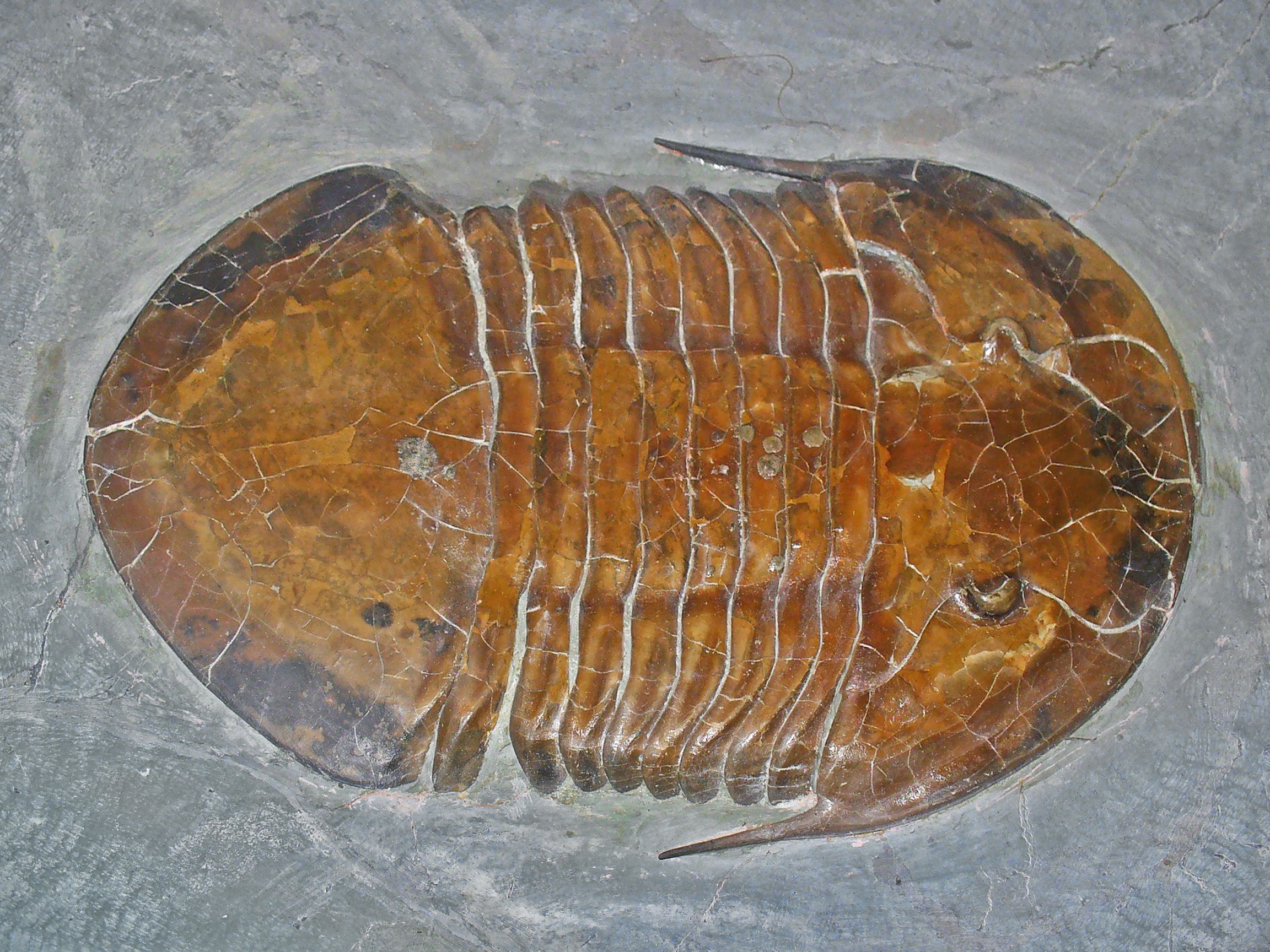 Megalaspides sp., Asaphidae; Ordovician, Brown County, Ohio, USA; Staatliches Museum für Naturkunde Karlsruhe, Germany.